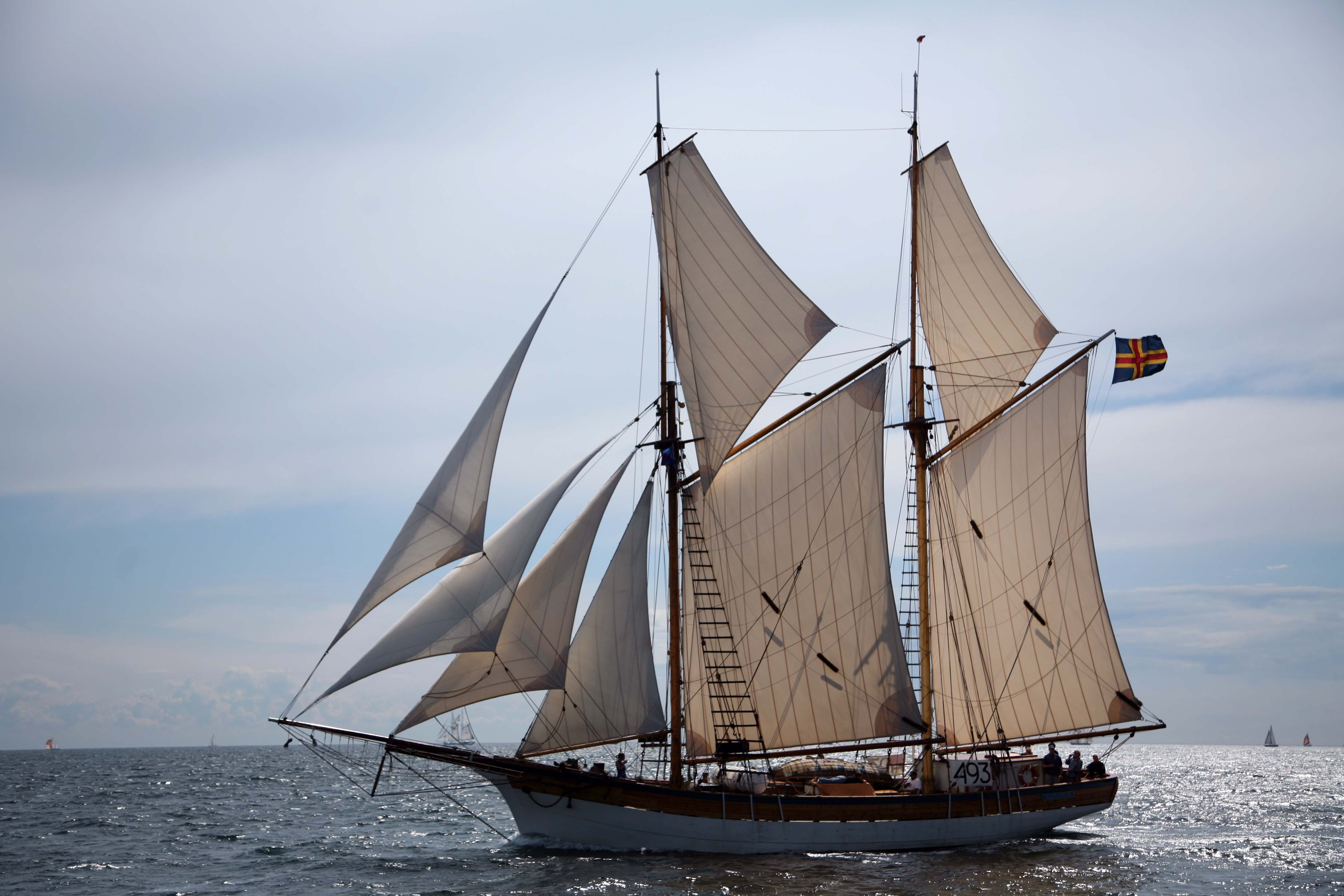 Schooner Albanus during the Tall Ships' Races in the Baltic Sea, 2007